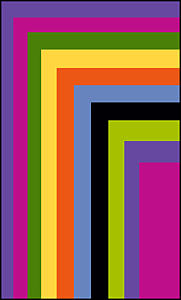 Colors, a bright variety